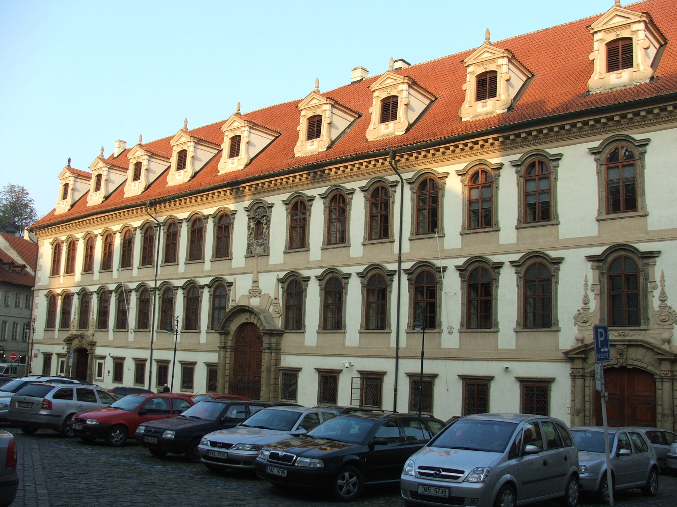 Wallenstein Palace - seat of Senate of Parliament of the Czech Republic in Prague - Malá Strana.